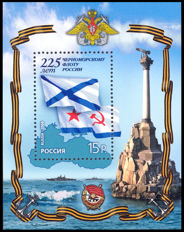 Stamp of Russia. 225th anniversary of the Black Sea Navy, 2008